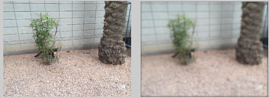 Image Blurring example